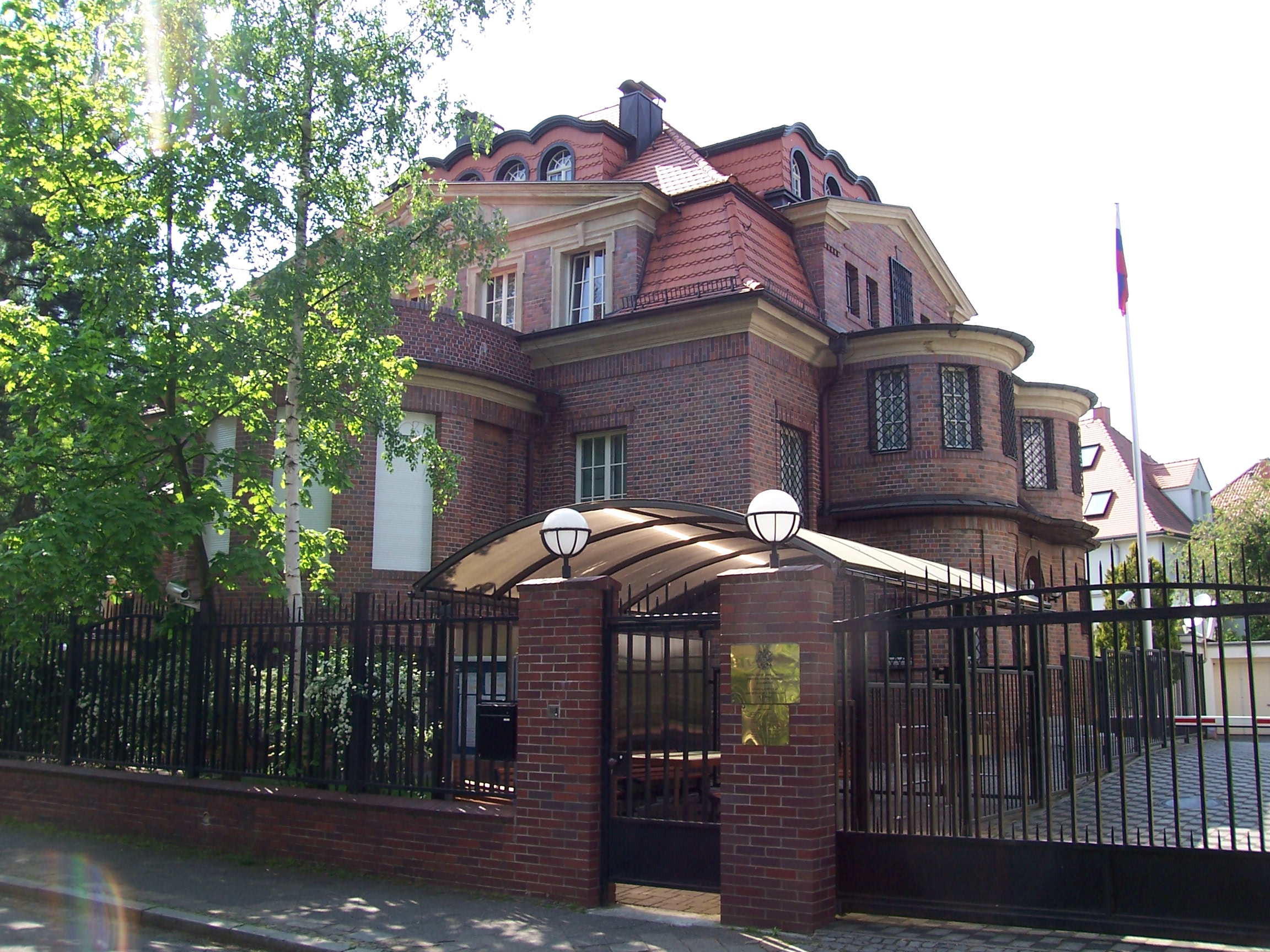 The picture shows the Russian Consulate in Leipzig, Turmgutstraße 1